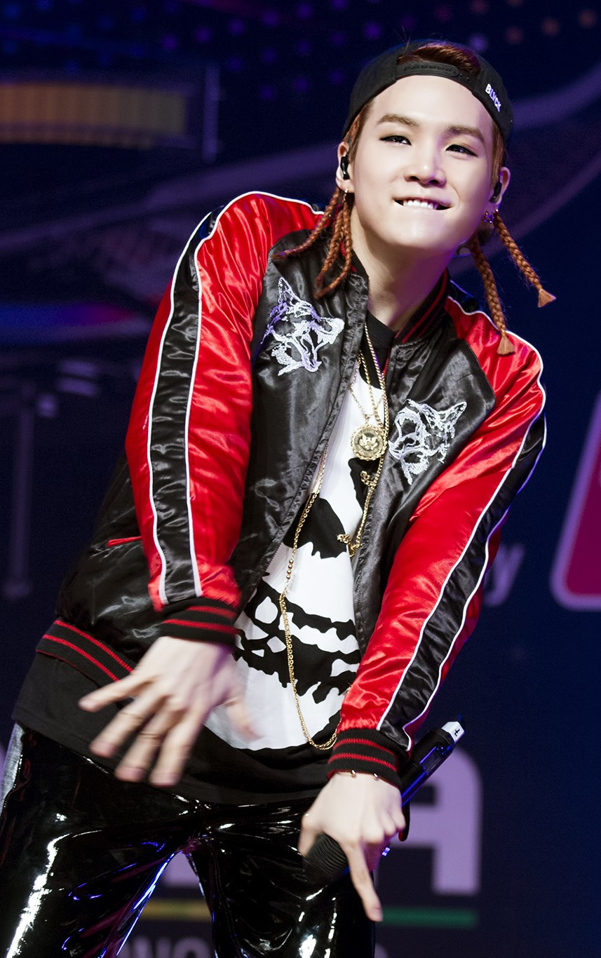 Suga at MAMA in Hong Kong, 3 December 2014